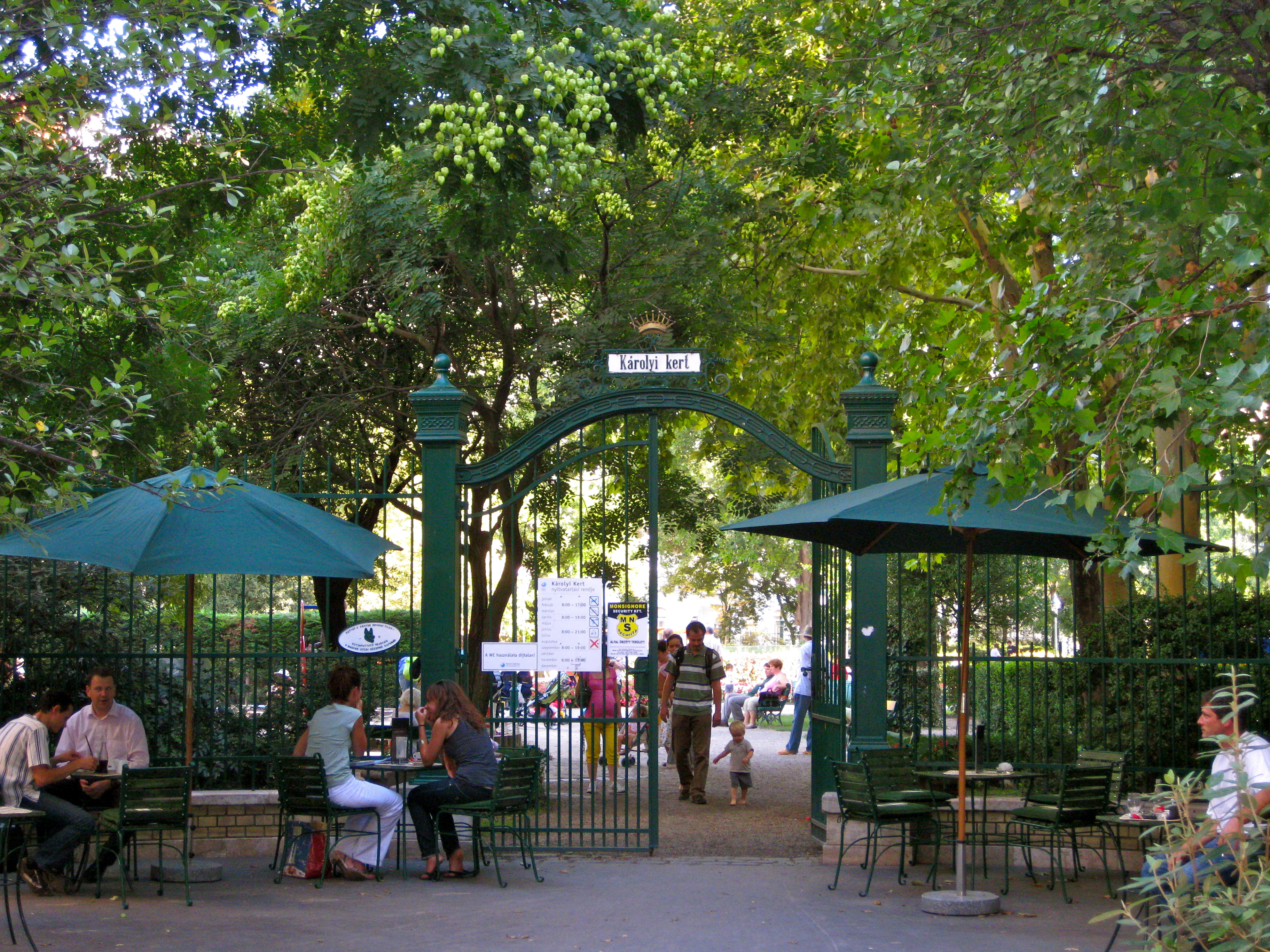 Budapest Playgrounds - Karolyi Kert Downtown District